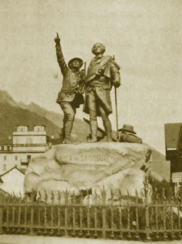 Horace-Benedict de Saussure and Jacques Balmat, monument in Chamonix / France.